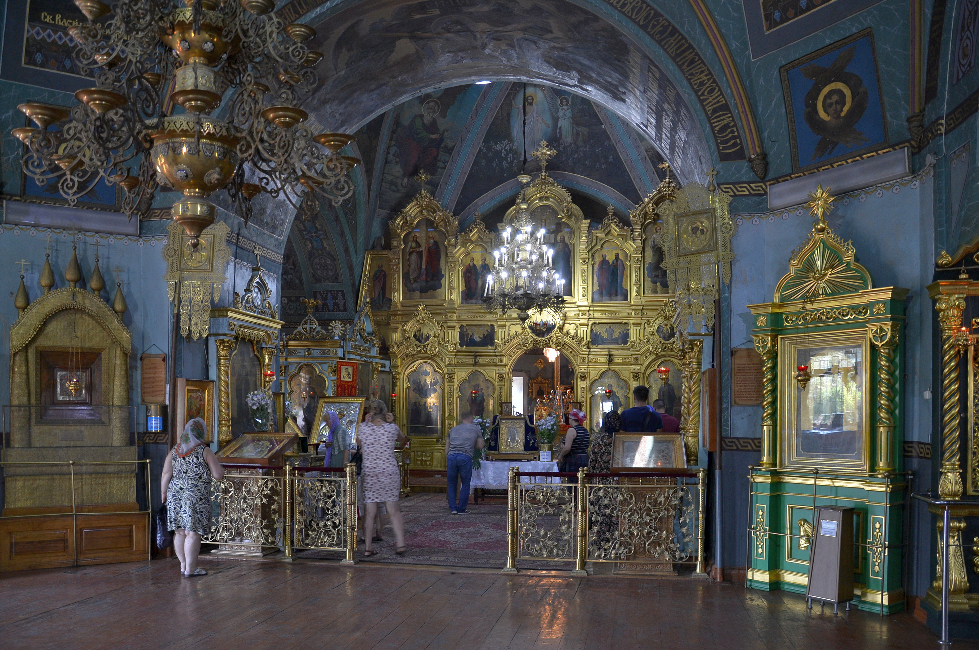 Ciuflea Monastery, Chișinău, Moldova - interior